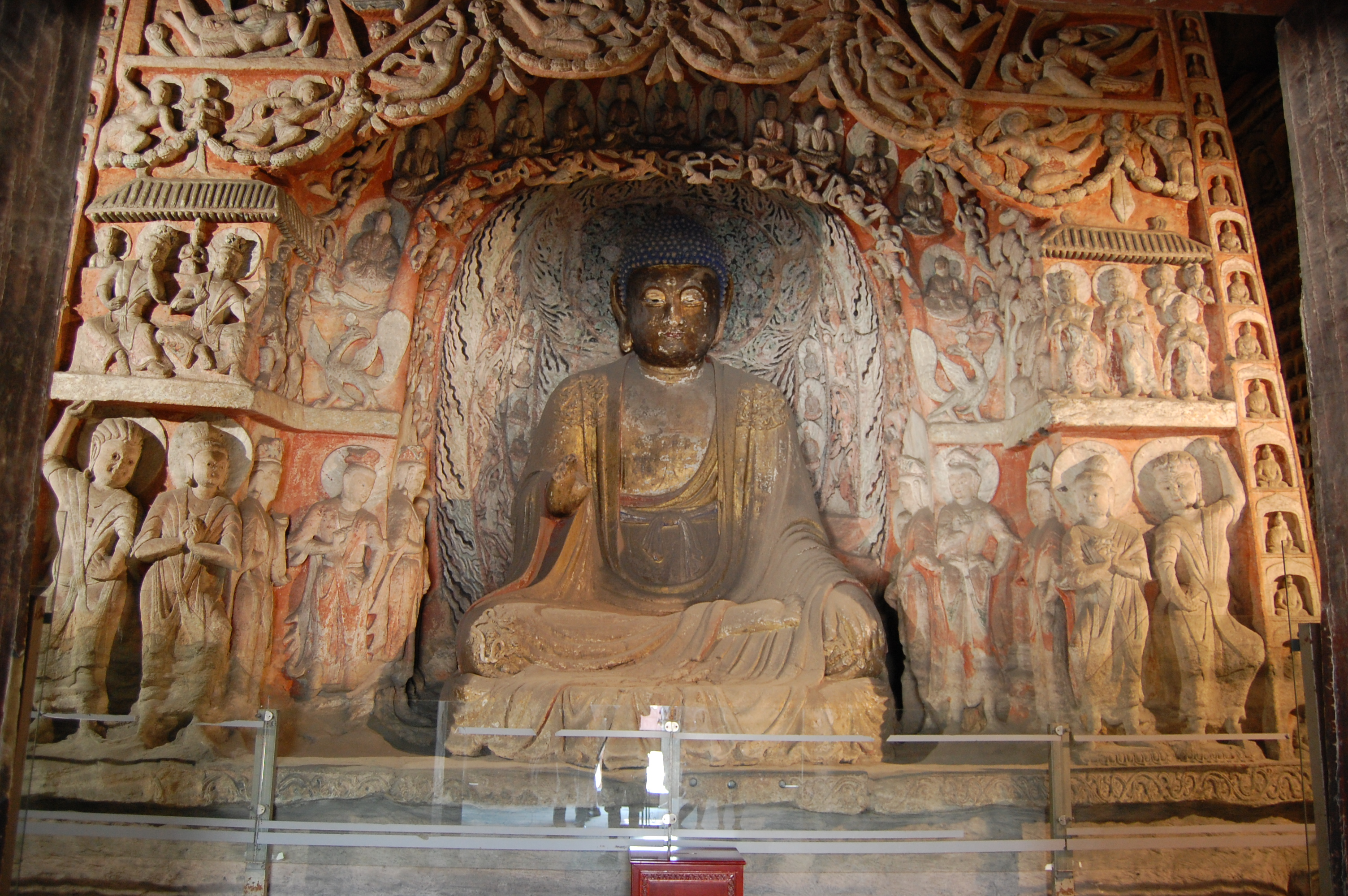 One od Budda satues in Yungang Grottoes, Datong, China